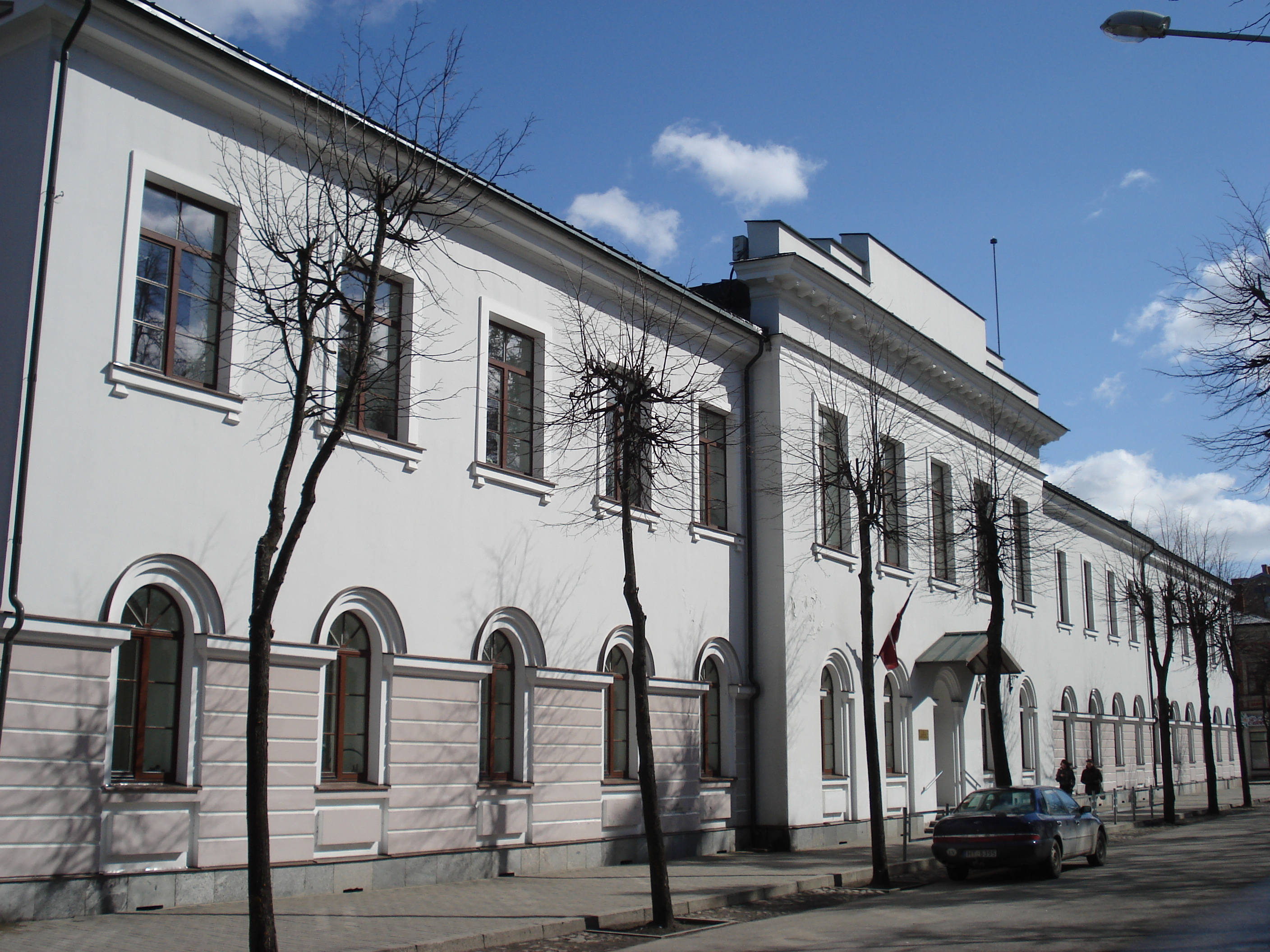 Historic building of Daugavpils State Gymnasium